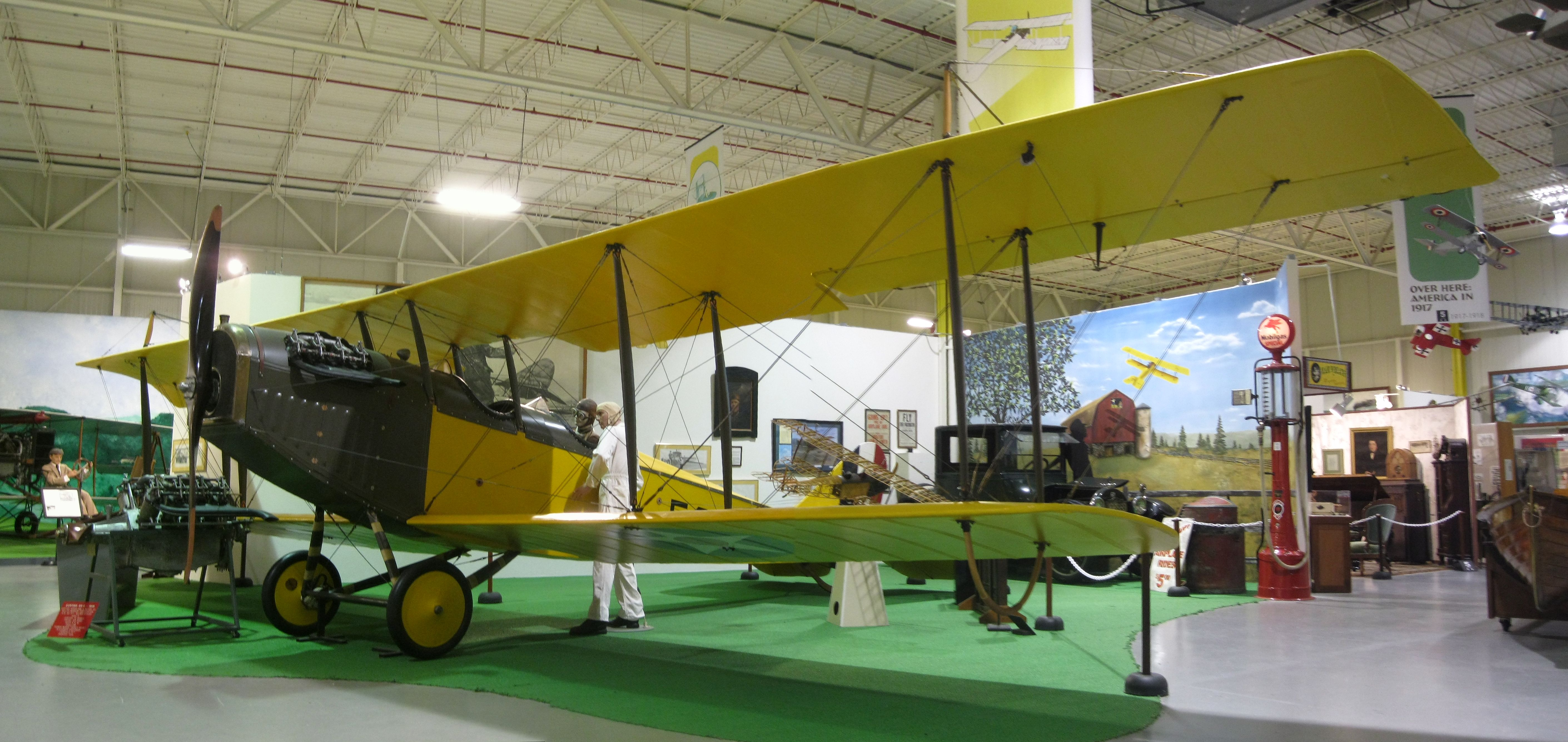 Curtiss JN-4 or "Jenny" airplane in the Glenn H. Curtiss Museum in Hammondsport, New York, USA.